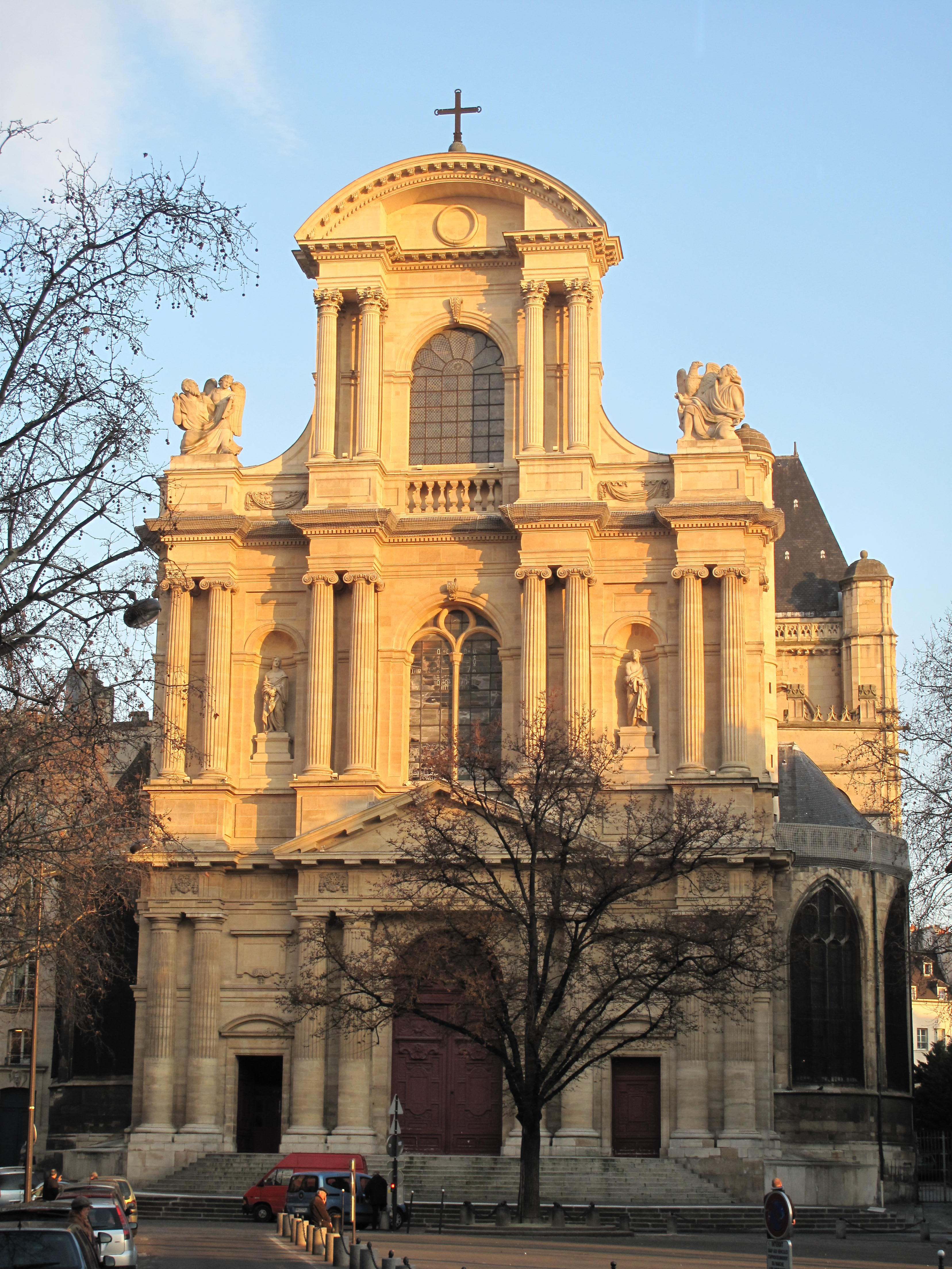 Facade of the church Saint-Gervais_Saint-Protais in Paris. With columns of the three orders.